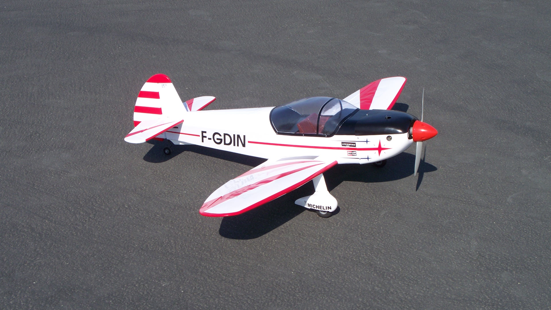 Photograph of Vinh Quang Model/Global Hobby Cap-10B radio controlled model airplane taken by user SayCheese!